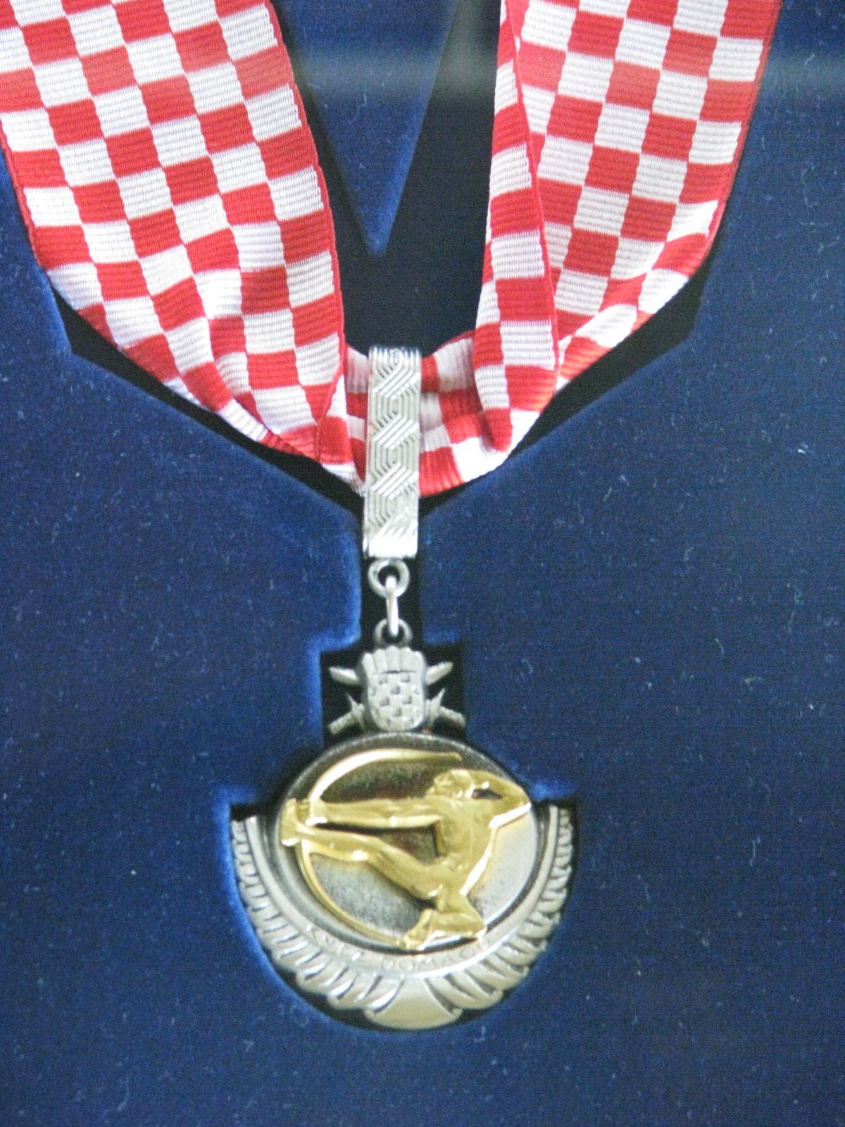 Order of Duke Domagoj (Order of Croatia)